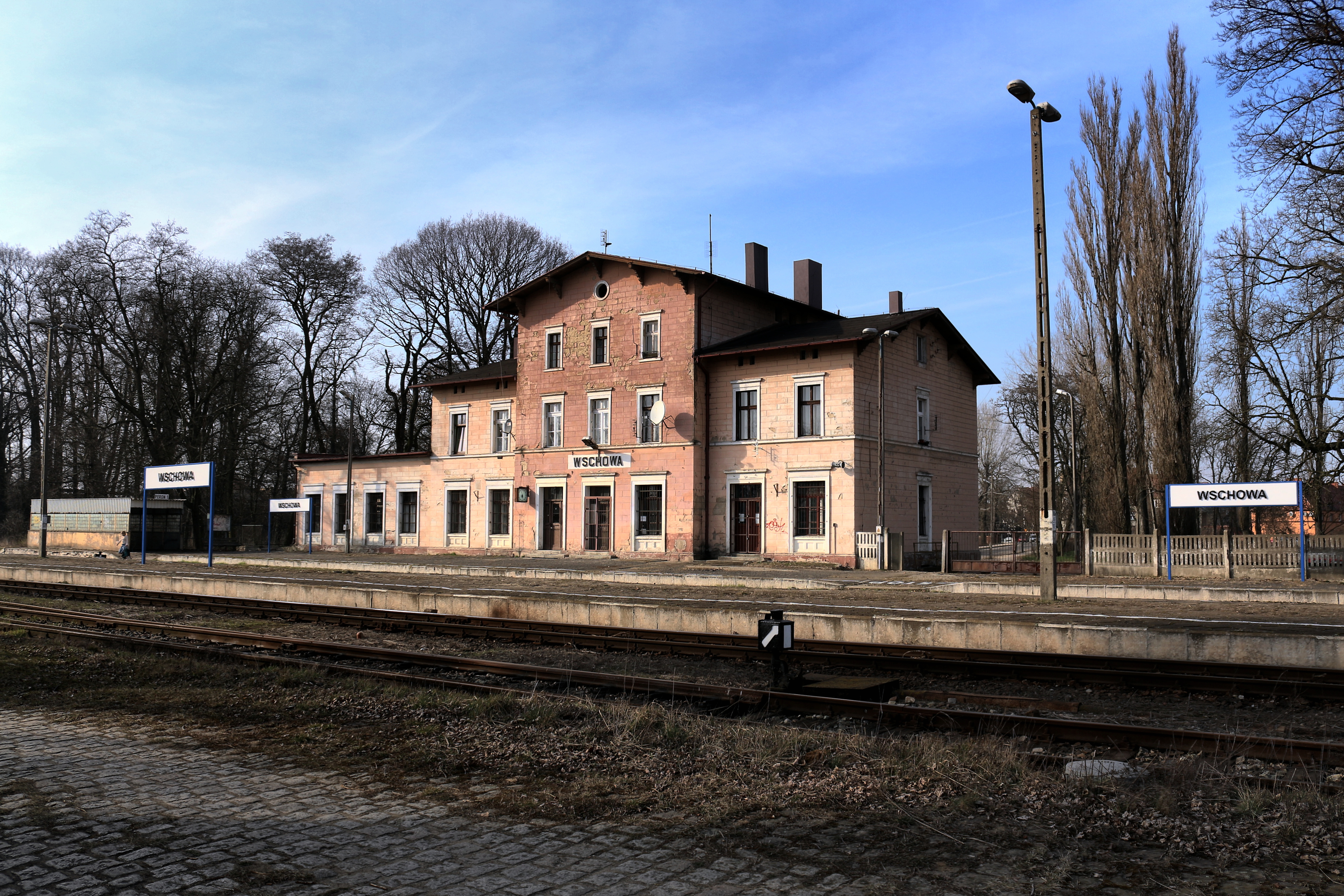 Wschowa, railway station